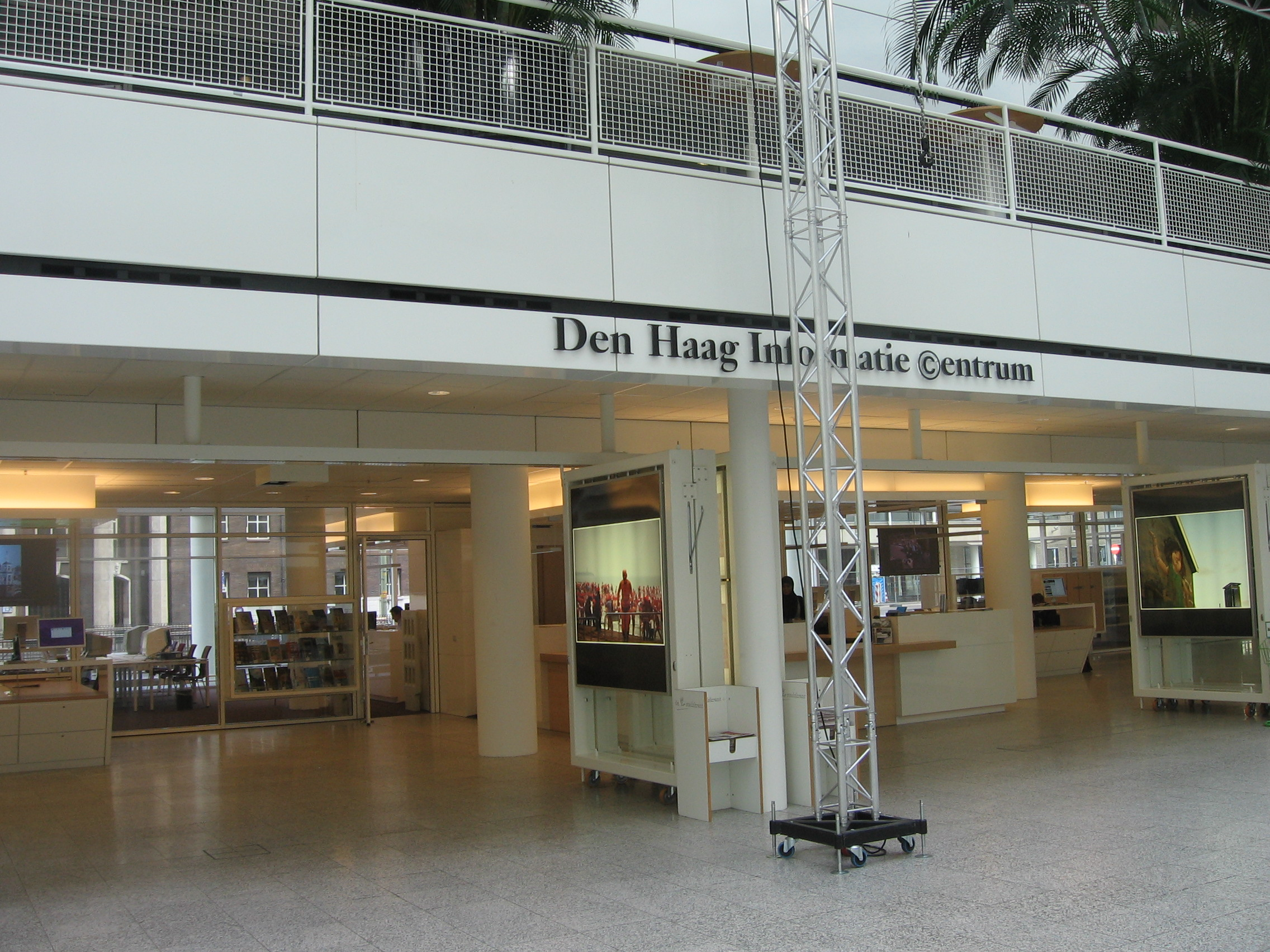 Municipal Archive of The Hague